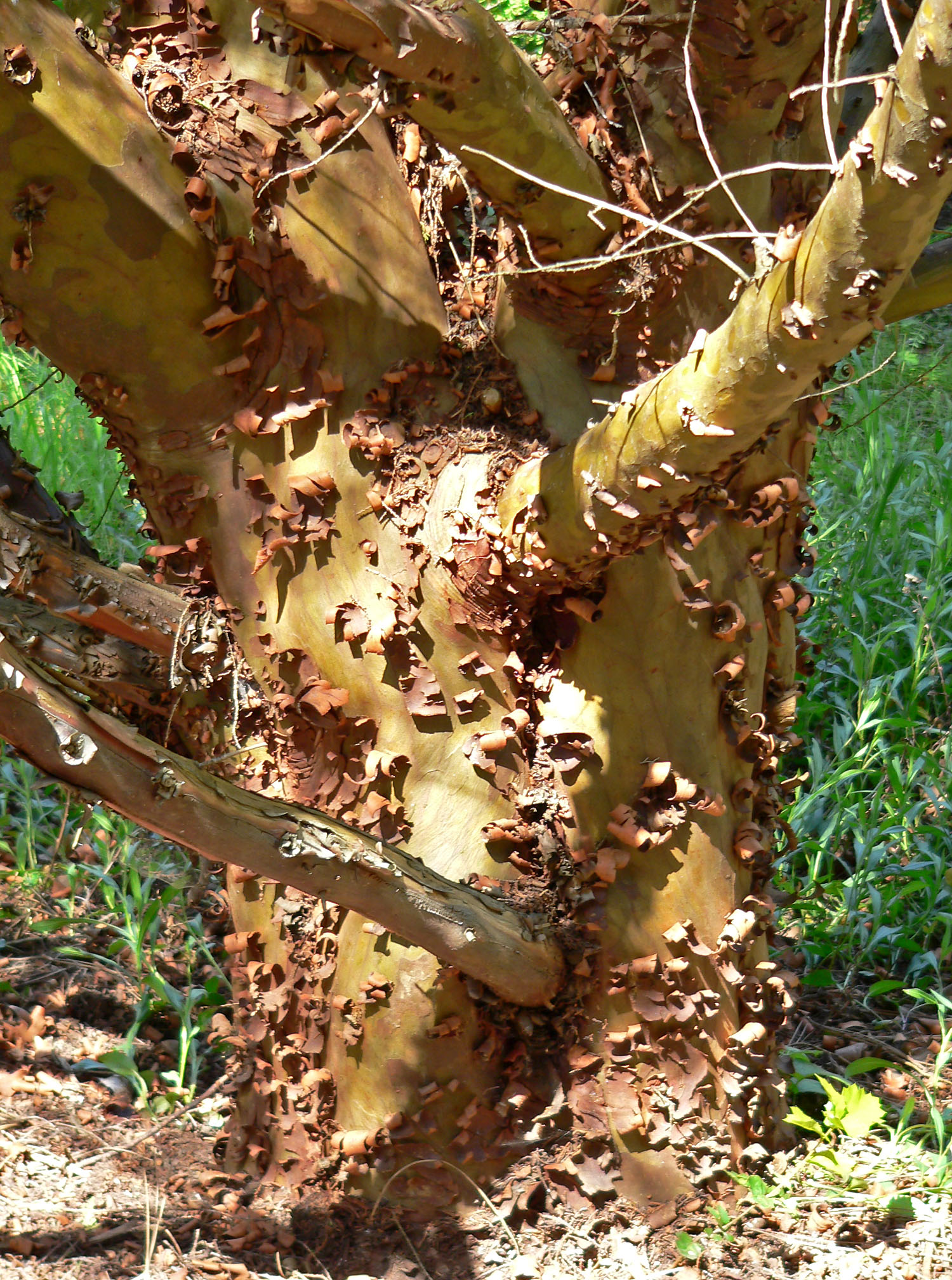 Cupressus forbesii (Tecate Cypress; syn. Hesperocyparis forbesii, Callitropsis forbesii). Endemic to the Peninsular Ranges of Southern California & Baja California, in California chaparral and woodlands habitats. Specimen in the Regional Parks Botanic Garden, Berkeley Hills, California.